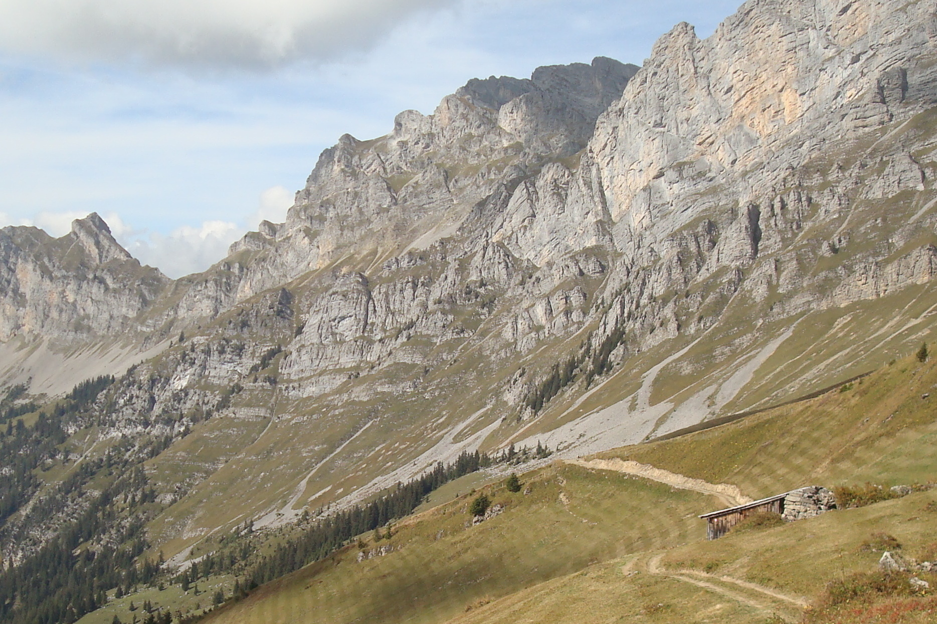 View of Spillgerten towards Bluttlig